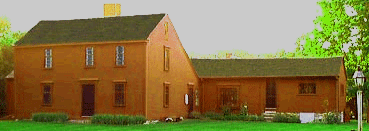 Author: Fortunat Mueller-Maerki Own Photograph taken Sept 2006 Image shows The Willard Museum and homestead in North Grafton. MAss the low level building on the right houses the recosnstructed workshop and the museum giftshop